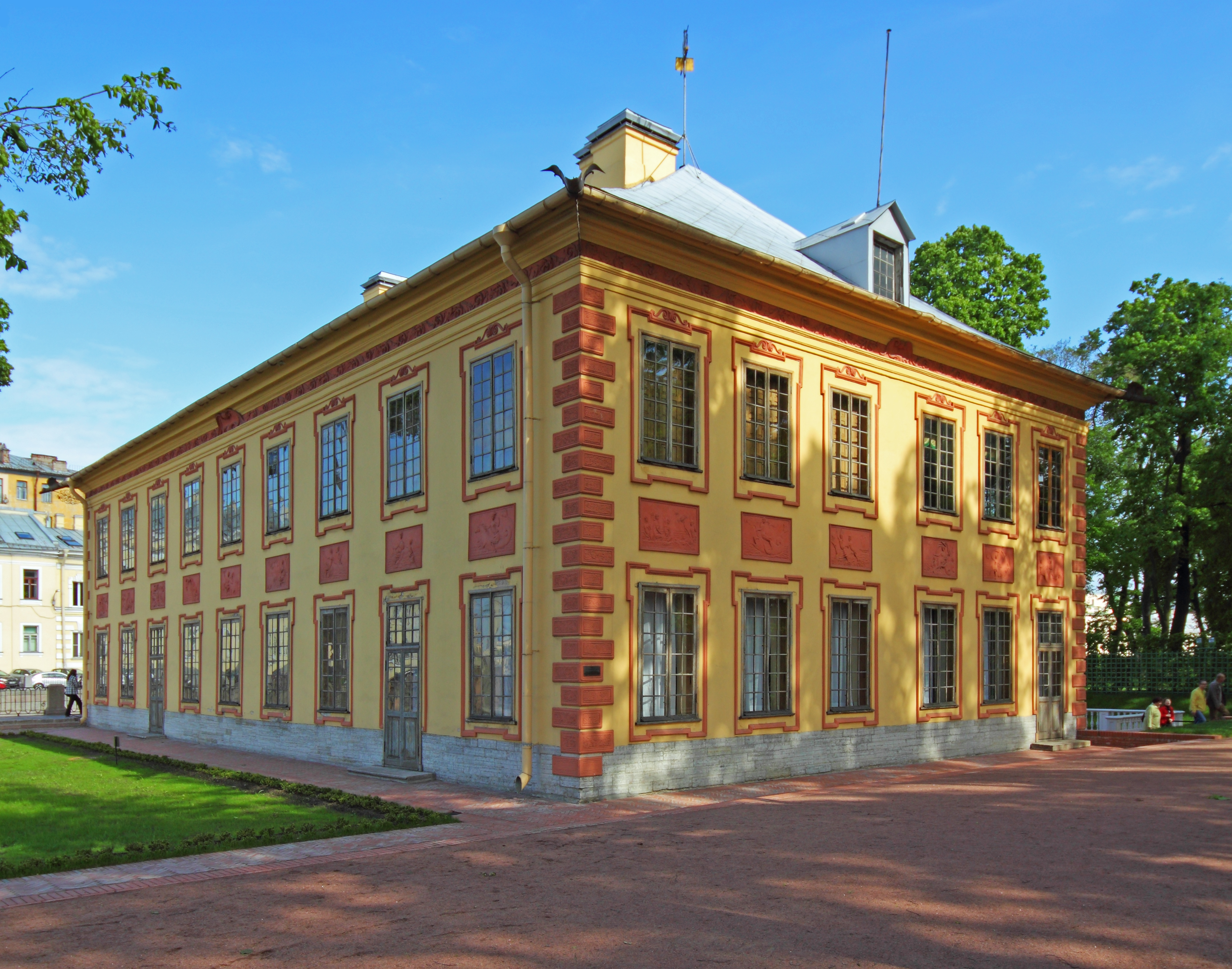 Saint Petersburg, Russia. Summer Palace of Peter I in the Summer Garden.